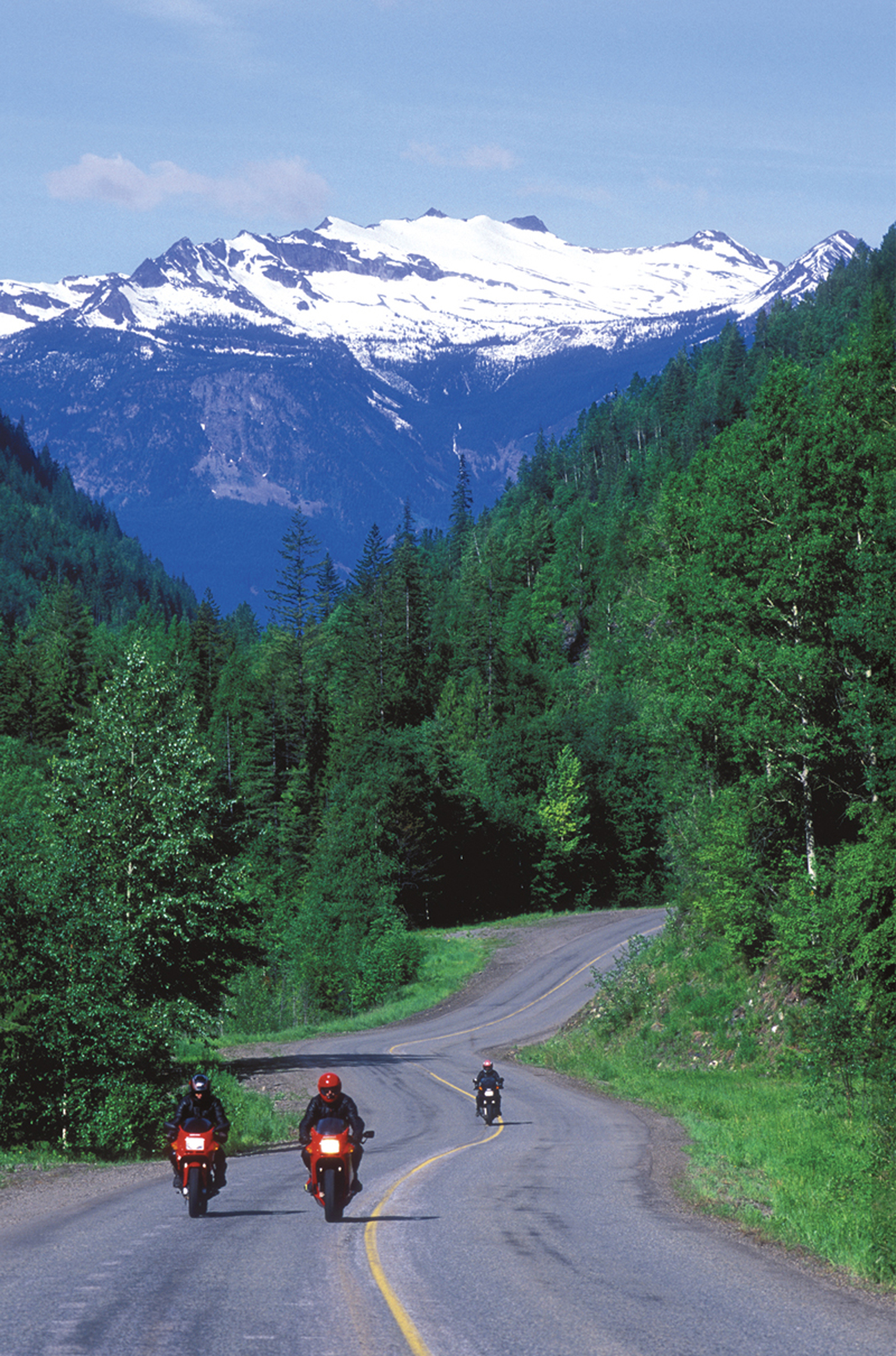 Two motocyclists zoom along the The International Selkirk Loop along Washington State Route 31 in Colville National Forest, Washington.